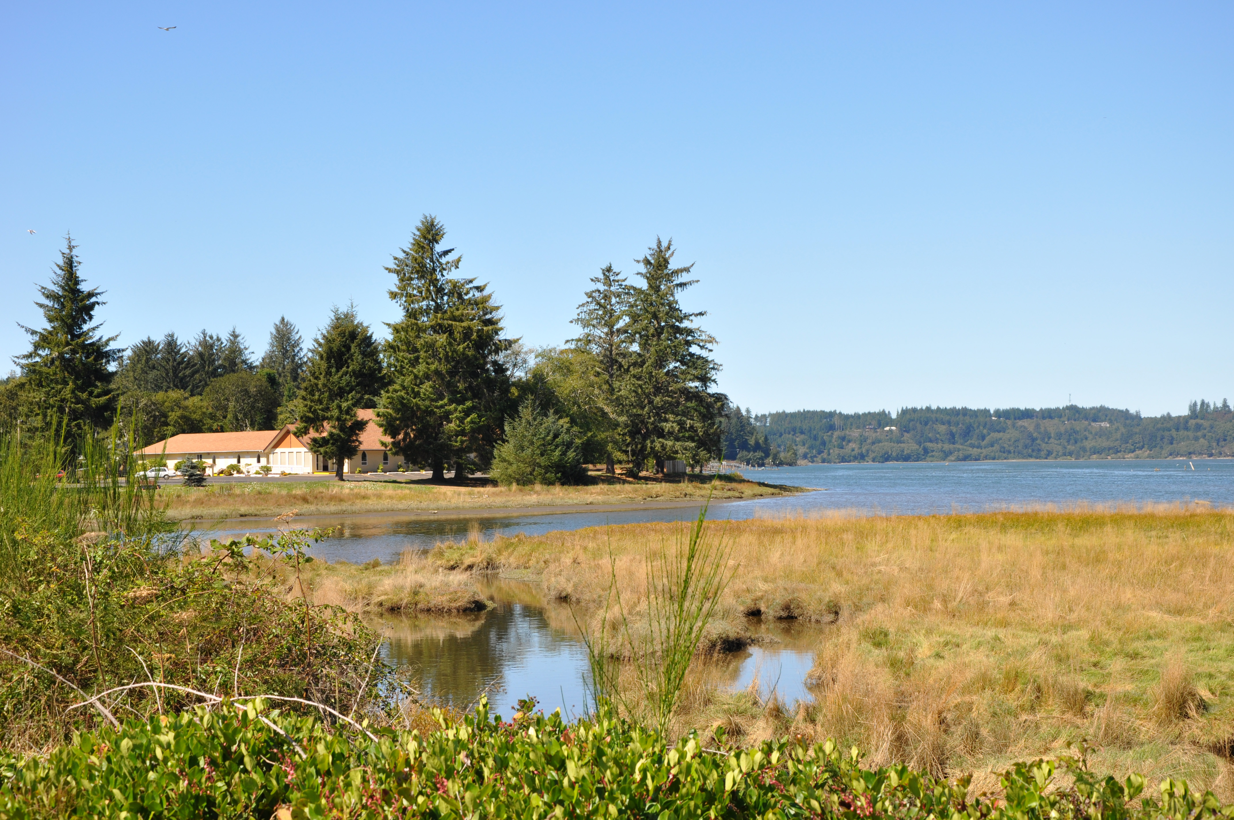 Upper Alsea Bay east of Waldport in the U.S. state of Oregon. Looking northwest from Route 34, the Alsea Highway.